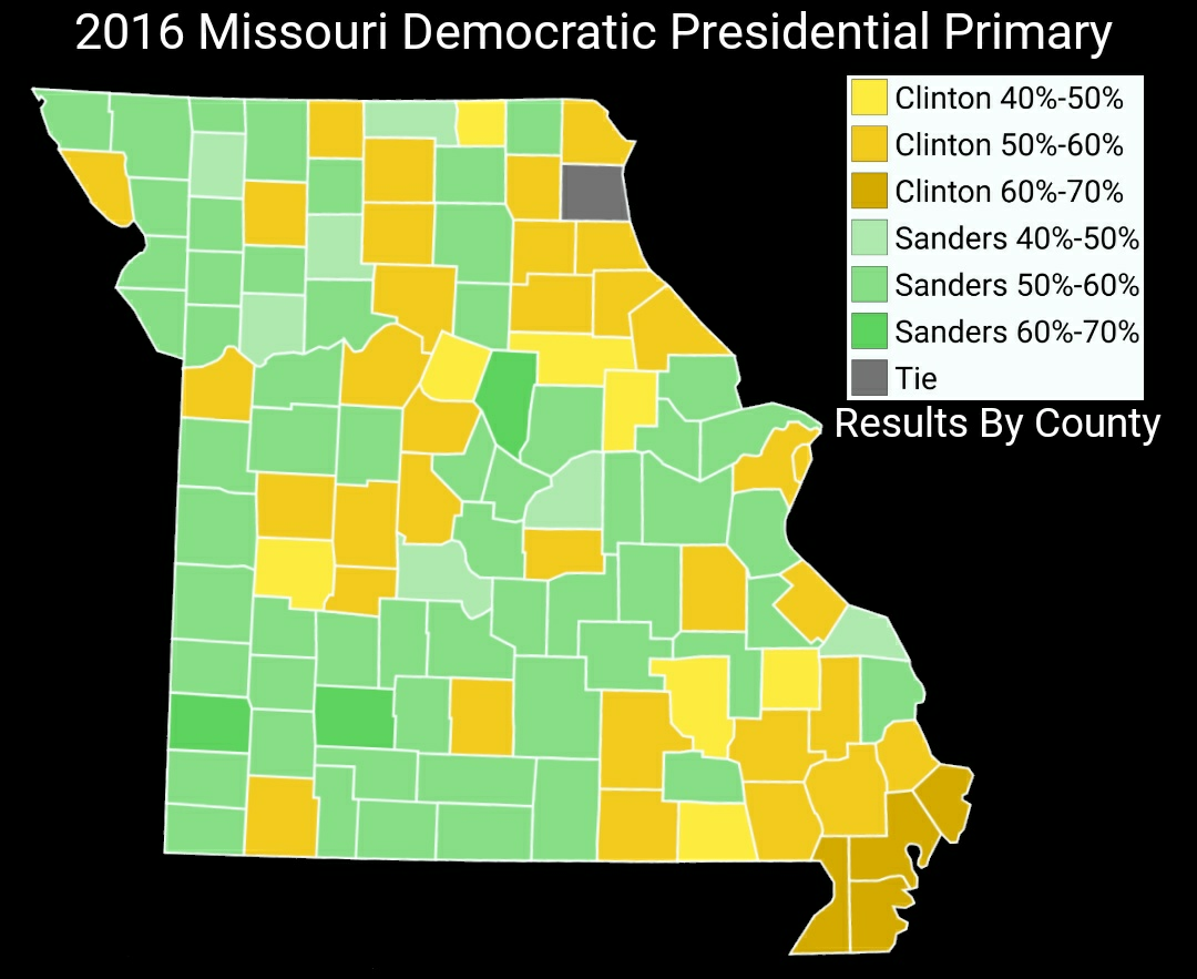 Counties colored to show the precentage of the vote won by the highest vote getter in each county.